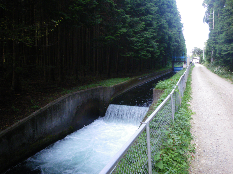 Nasu-sosui canal. Nasushiobara, Tochigi, Japan.